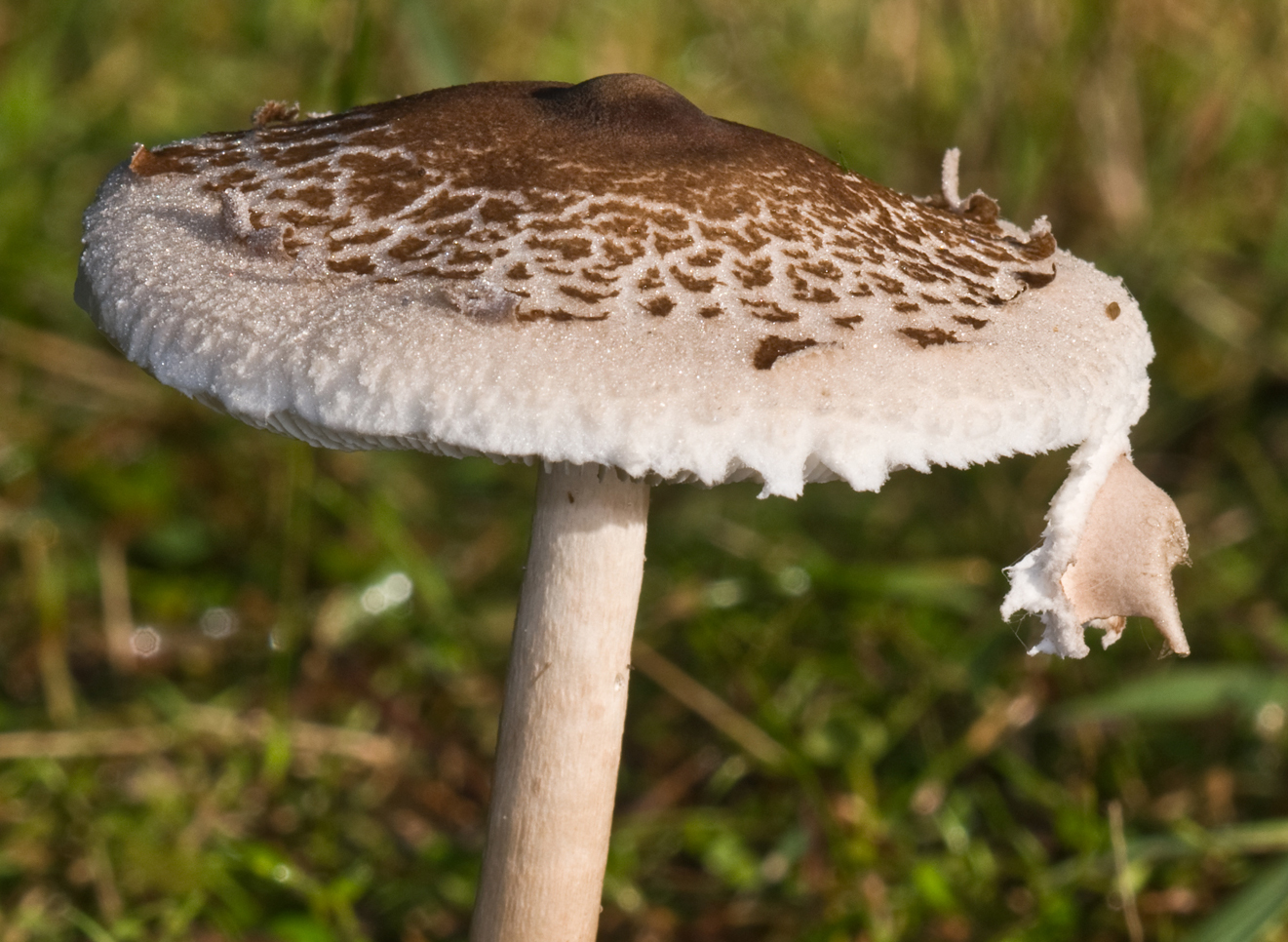 A cap of the mushroom Macrolepiota clelandii. Photographed in Swans Crossing State Forest, New South Wales, Australia.